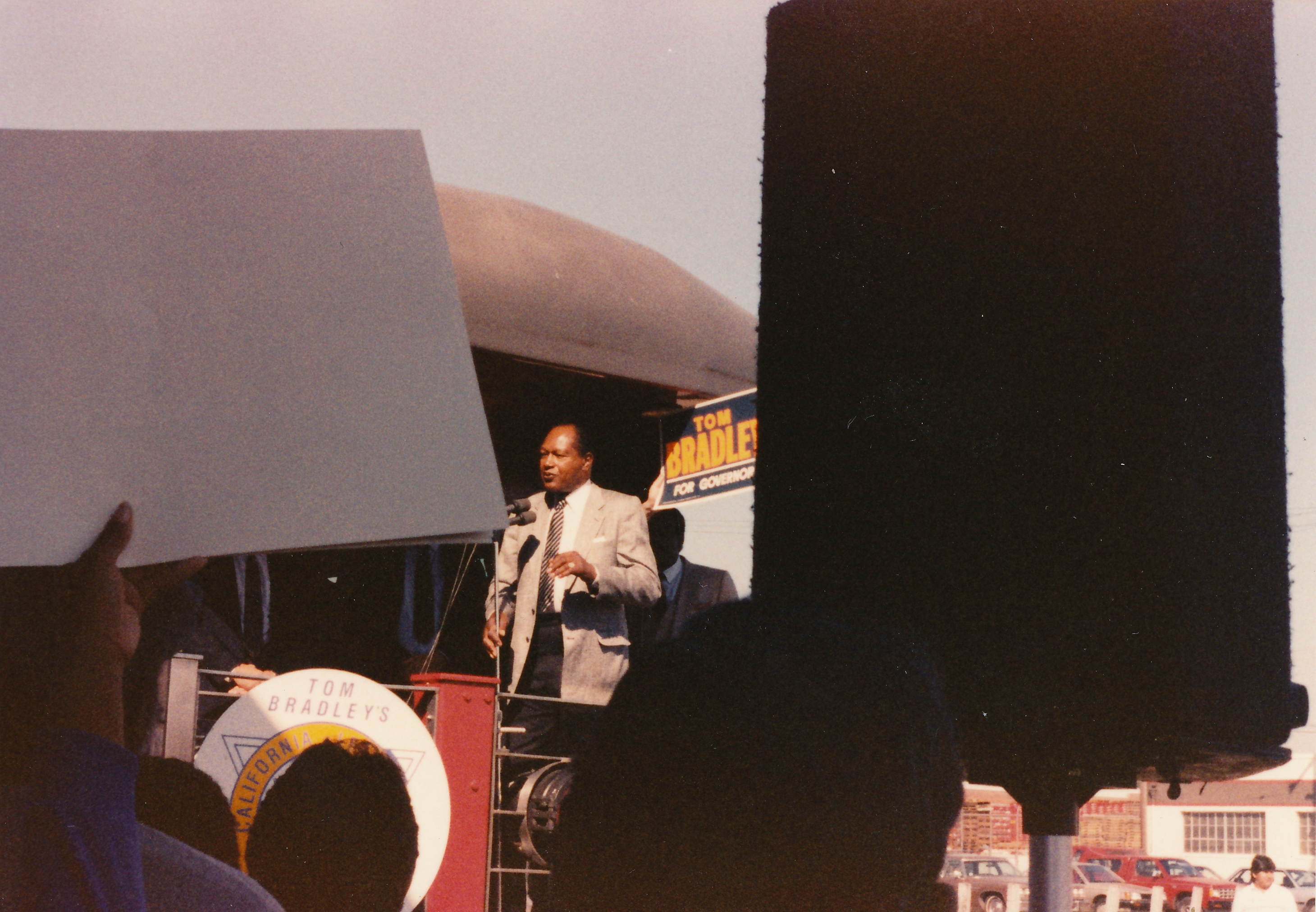 Wod-o-Pics-3_0067 - Kodalux Processing Services NOV. 89 P - Bradley for Gov campaign whistle-stop 1986